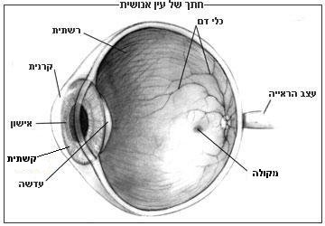 Translated to Hebrew from Human eye cross-sectional view grayscale.png